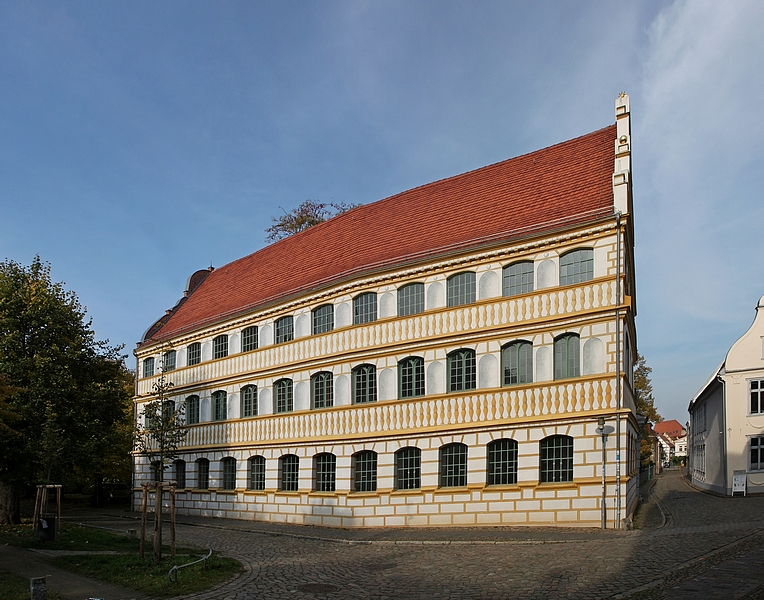 Güstrow: this image shows the cathedral school (built 1575/79), the oldest preserved school-building in Mecklenburg.